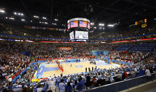 Beijing Wukesong Culture & Sports Center